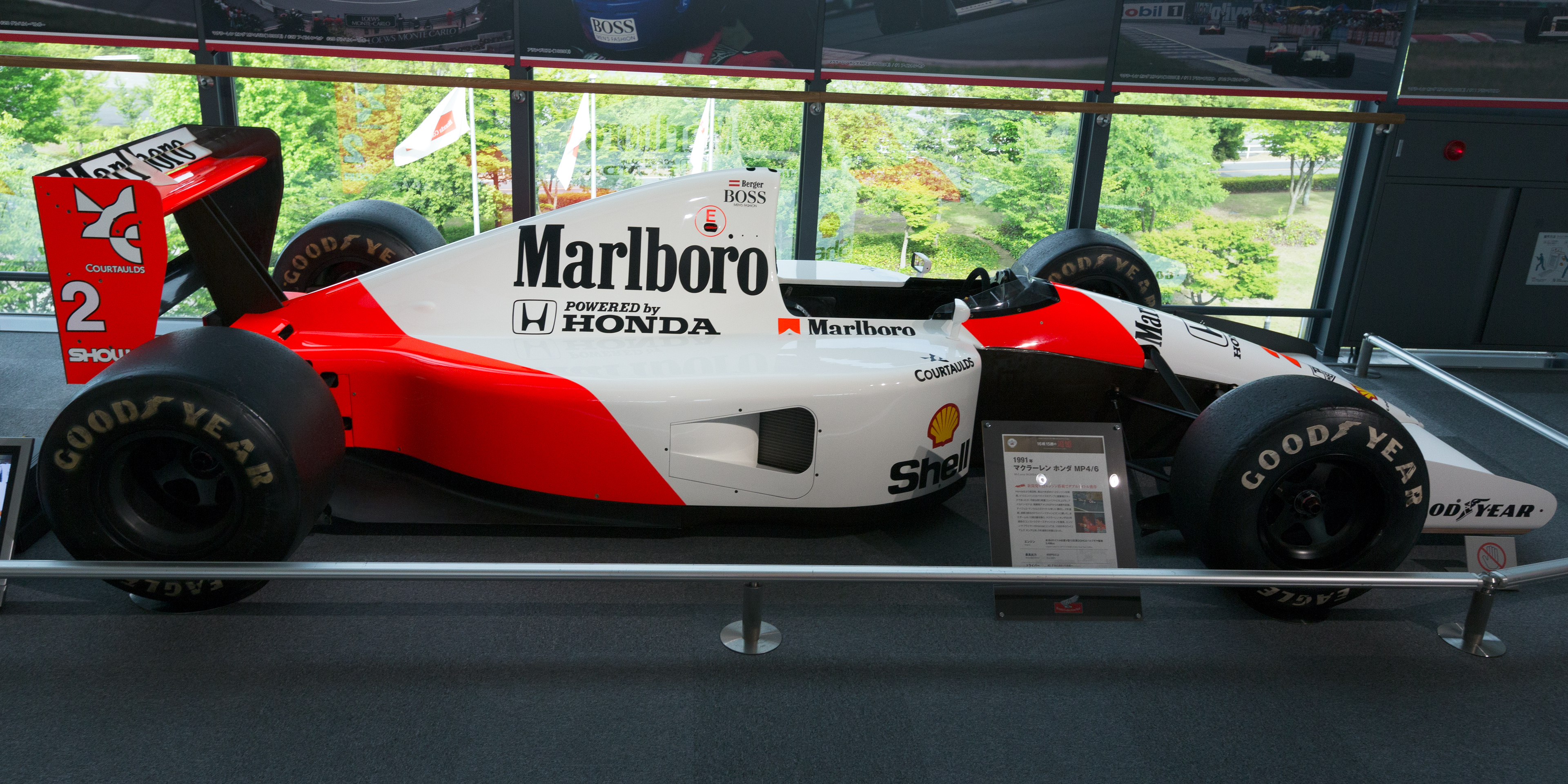 1991 McLaren MP4/6 of Gerhard Berger